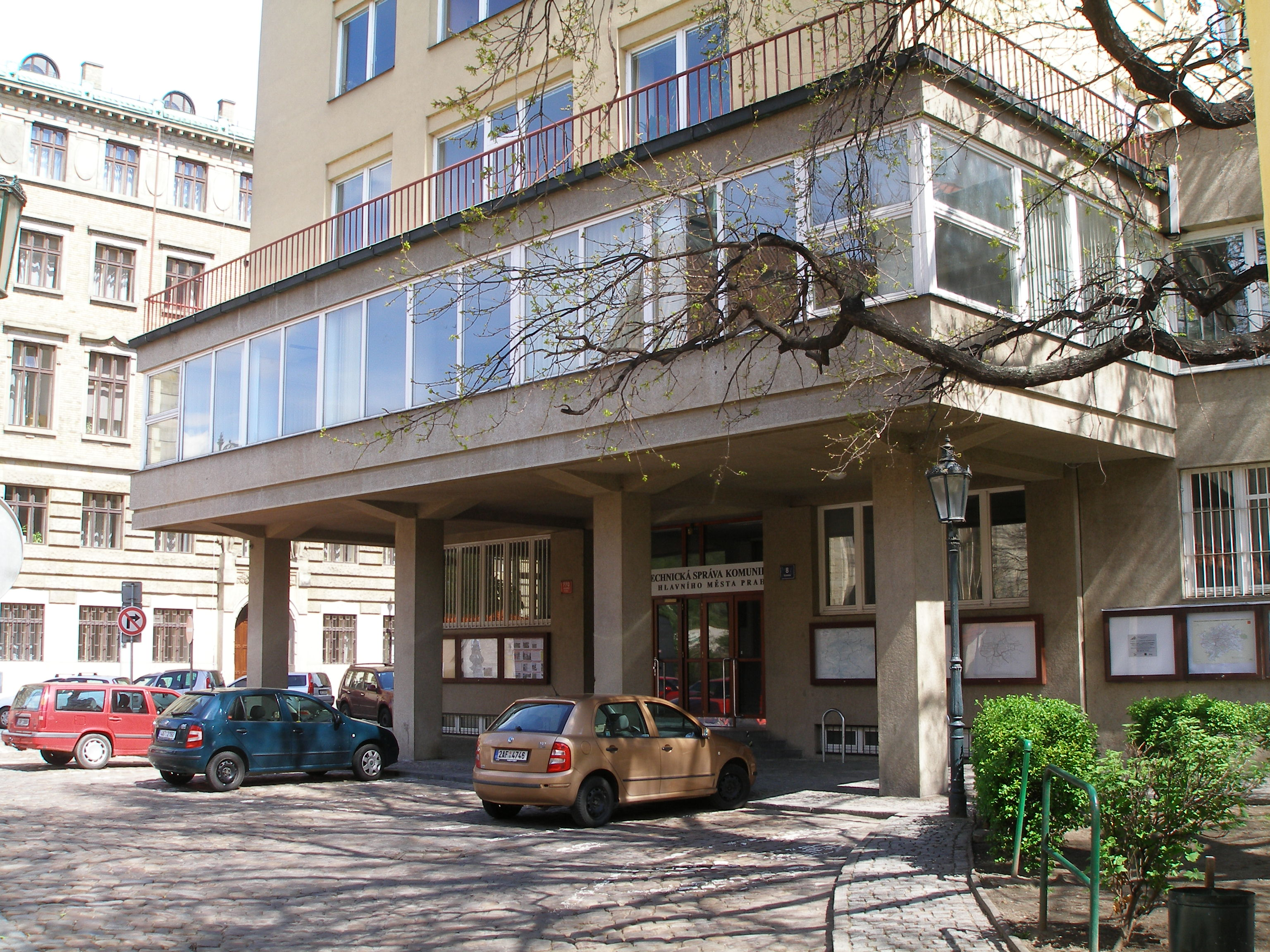 Hpuse Řásnovka 770/8, Prague 1 - Old Town (entry).